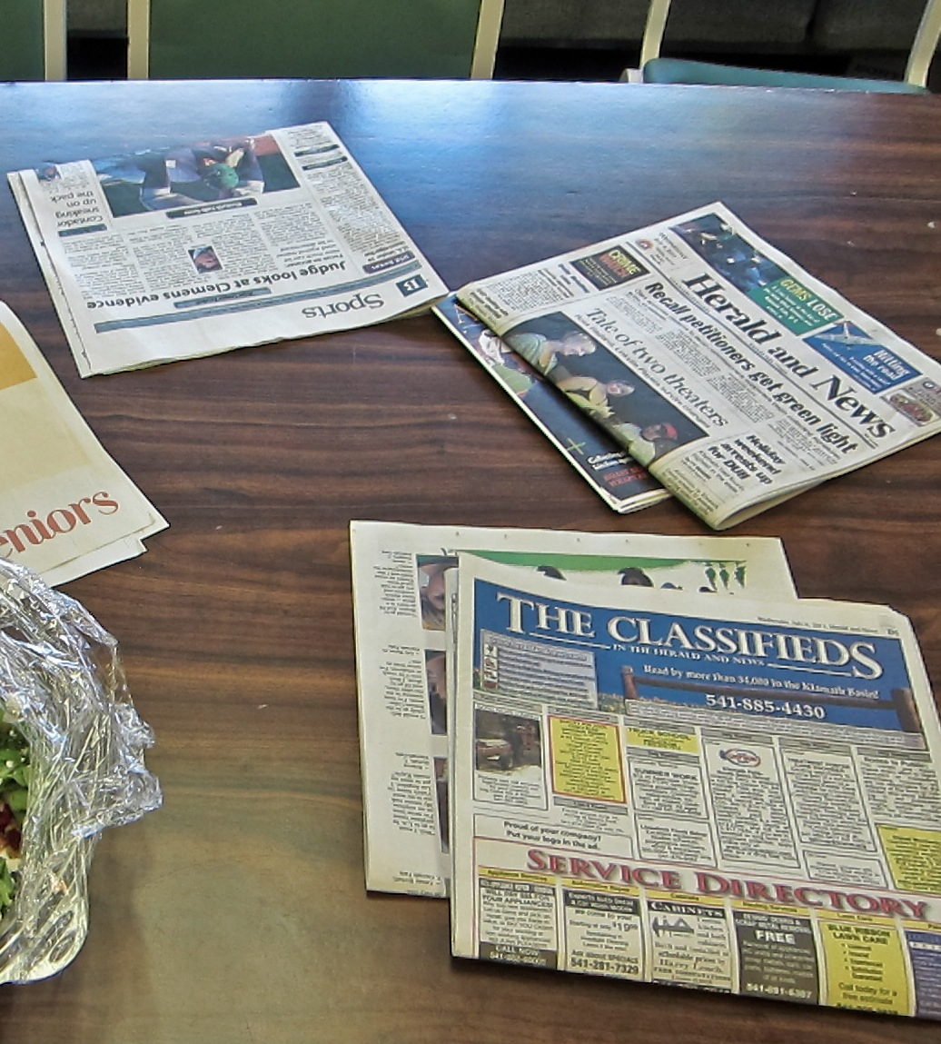 Some sections of the Herald and News, a Klamath Falls, OR-based newspaper